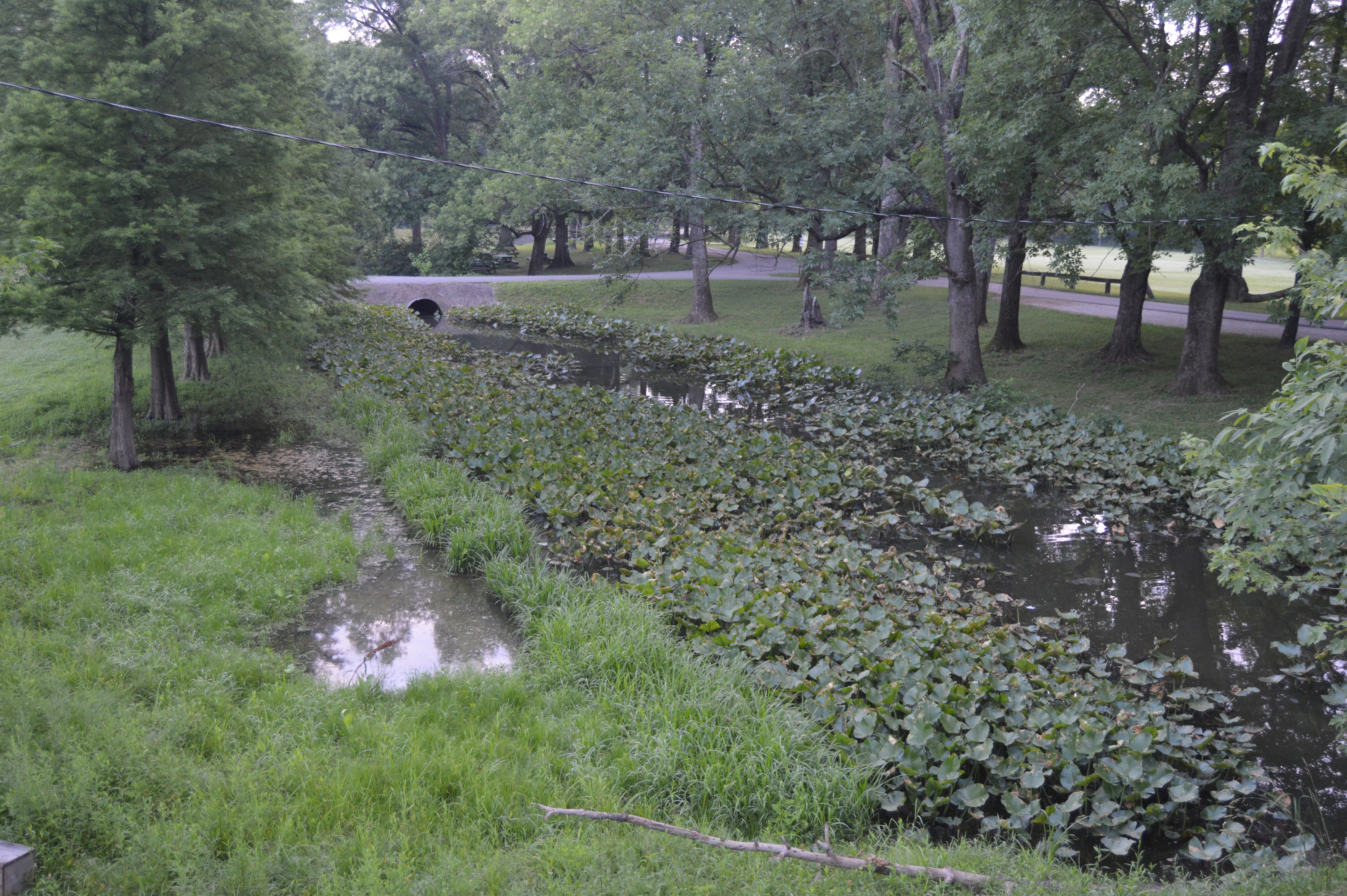 Looking north from Nurrenbern Road over Bayou Creek, which forms the northern border of Union Township, Vanderburgh County, Indiana, United States. This bayou was the focus of Handly's Lessee v. Anthony, an 1820 US Supreme Court case between Indiana and Kentucky, in which Kentucky sought to have this bayou declared the northern channel of the Ohio River.